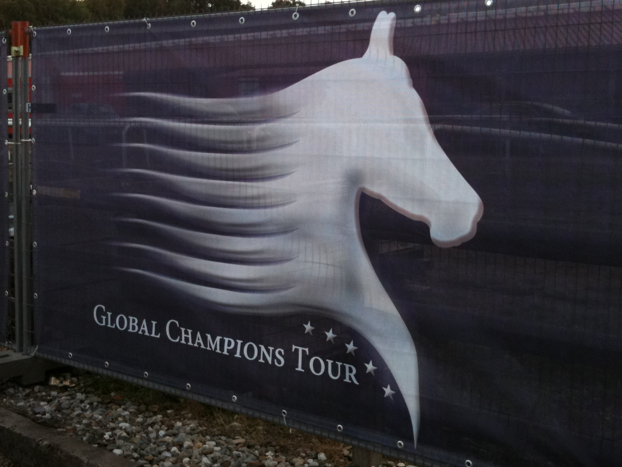 Global Champions Tour's logo. Picture taken in Valkenswaard (Netherlands) for the Global Champions Tour CSI-5* in 2010.